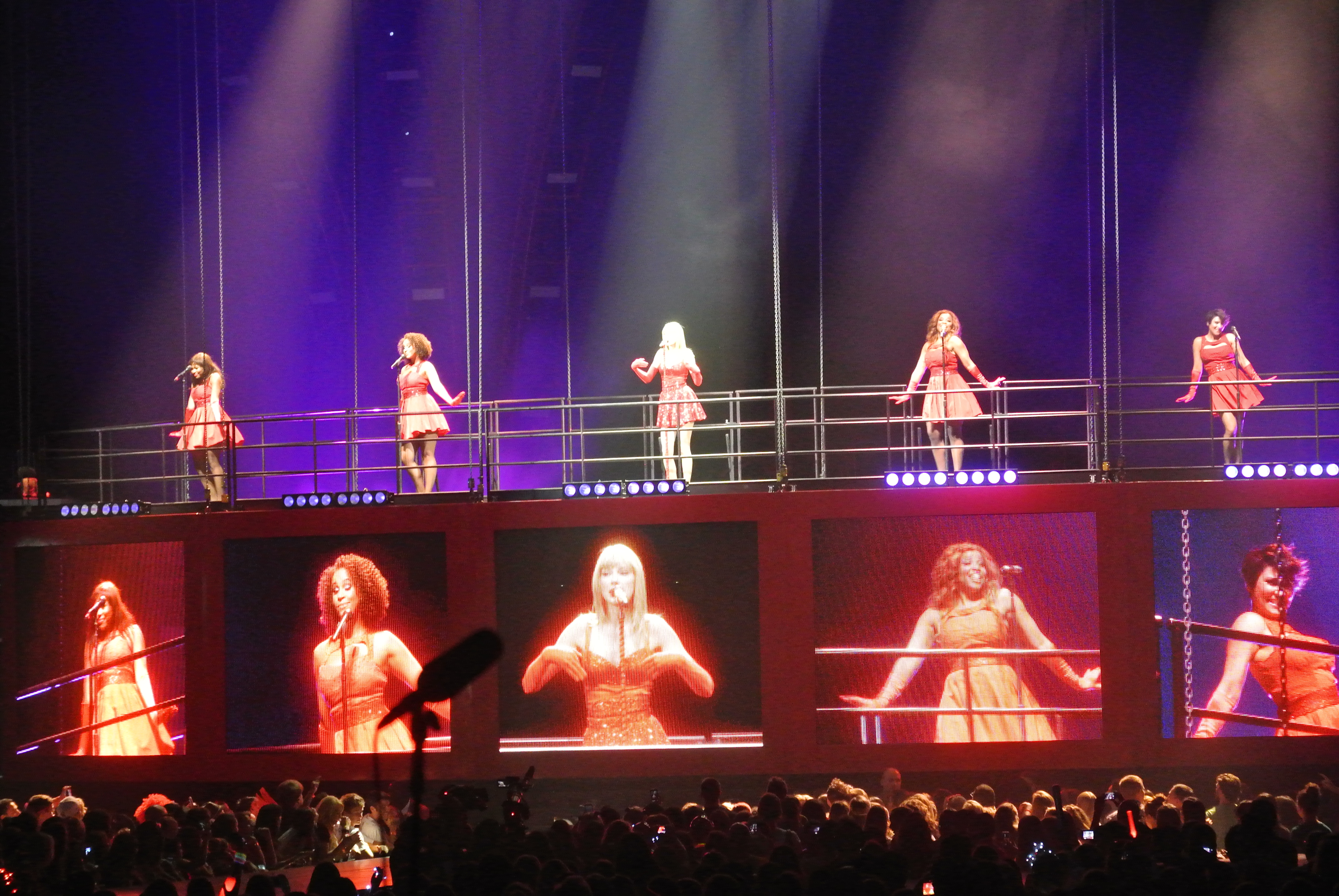 Taylor Swift performed You Belong With Me during Red Tour at Staples Center, Los Angeles in 2013